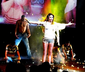 Helena Paparizou performing Katse Kala at Thalassa - People's Stage night club in September 2009